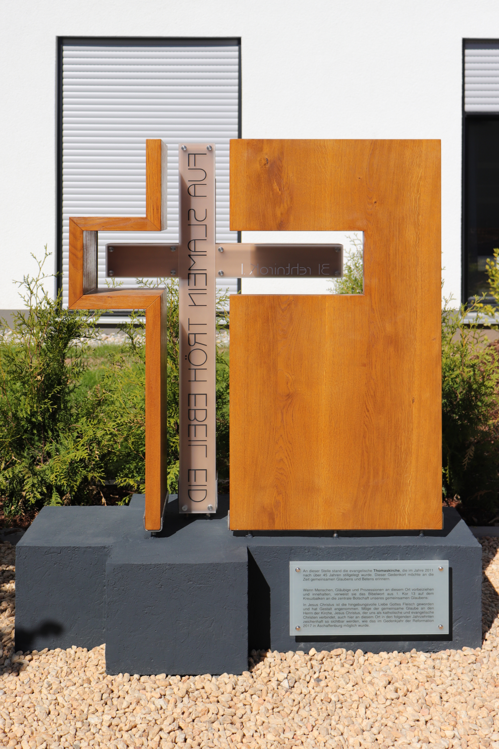 Aschaffenburg, monument at the location of the former Saint Thomas church